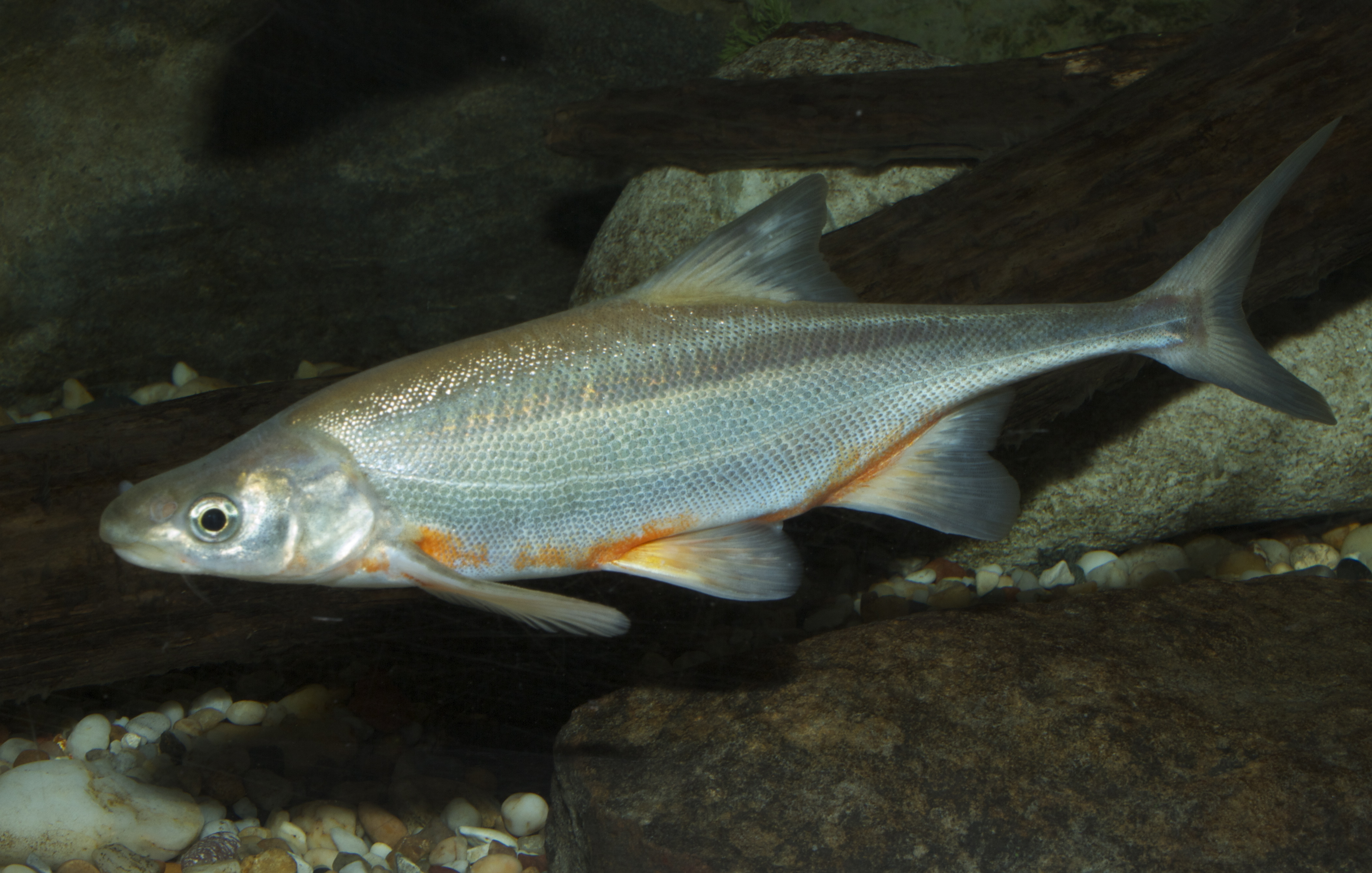 Boneytail chub